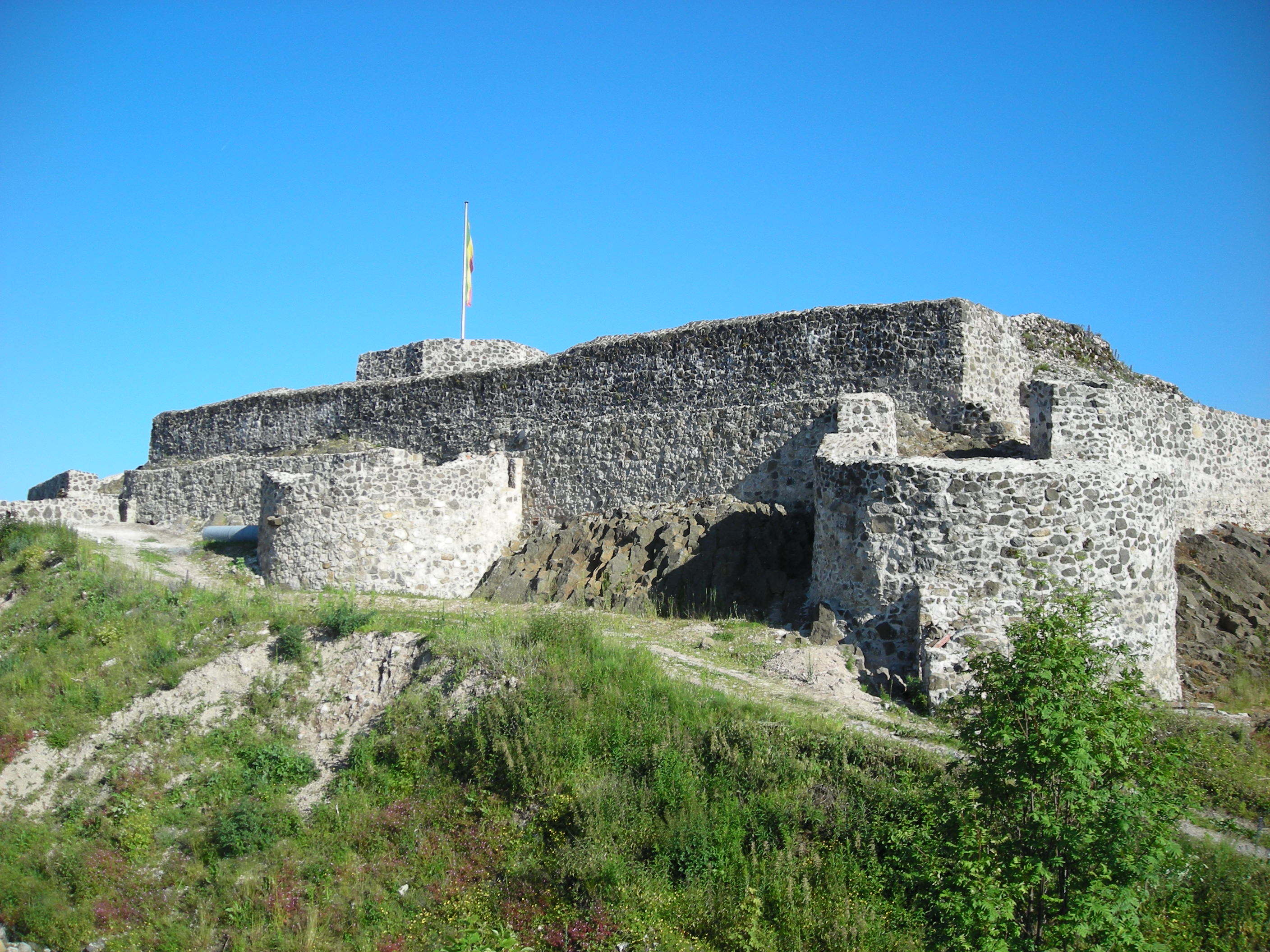 A picture of the approach to Burg Waldeck in the Oberpfalz using the modern entry.